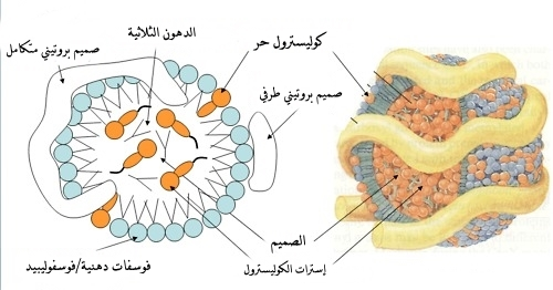 chylomicron in arabic